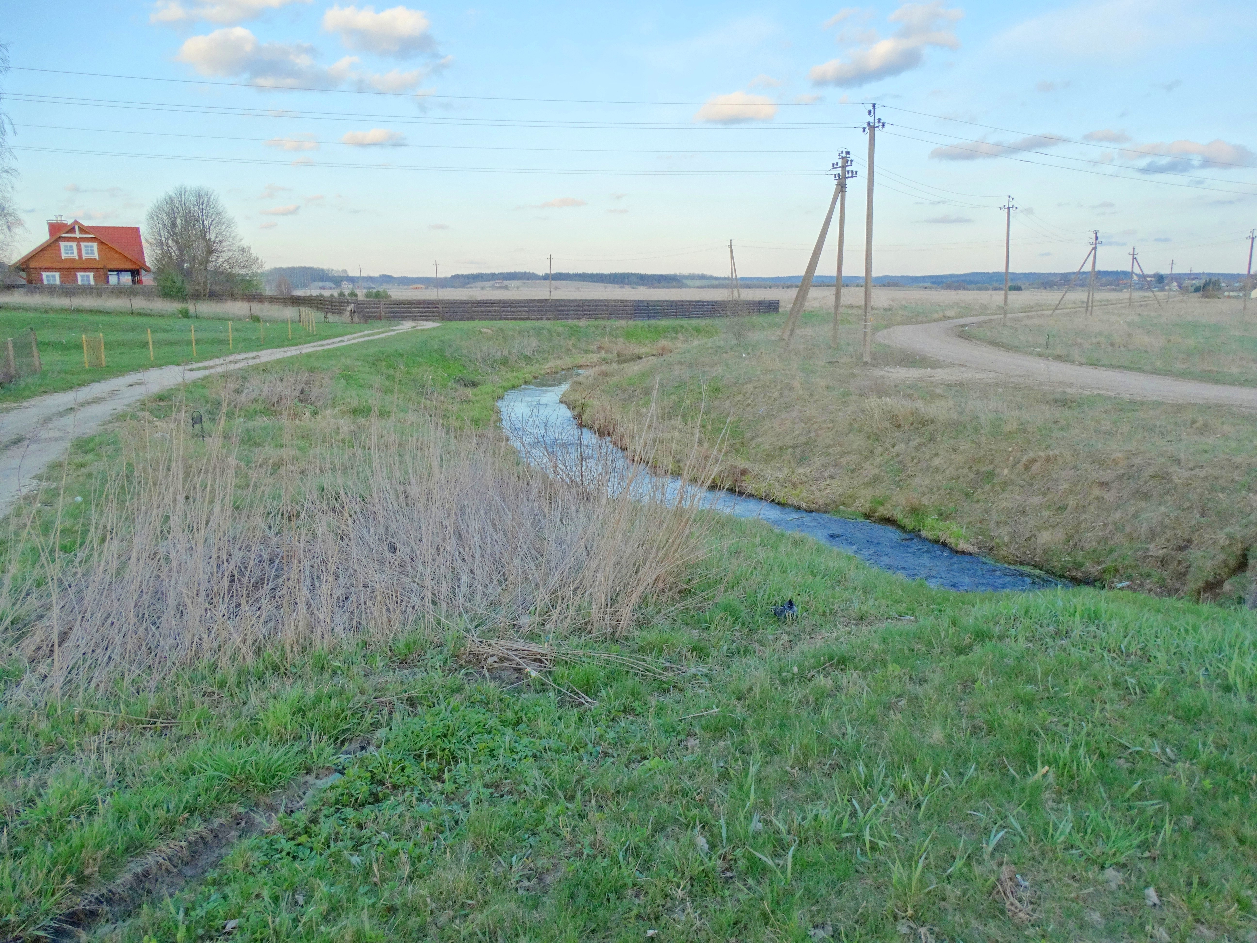 Rudamina River, tributary of Vokė, Lithuania